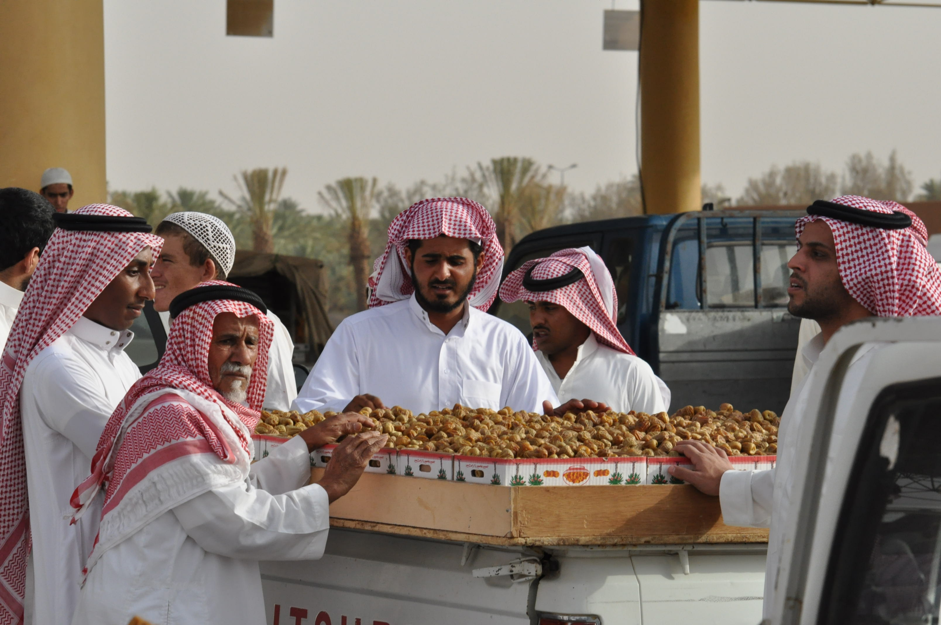 Date City in Buraidah